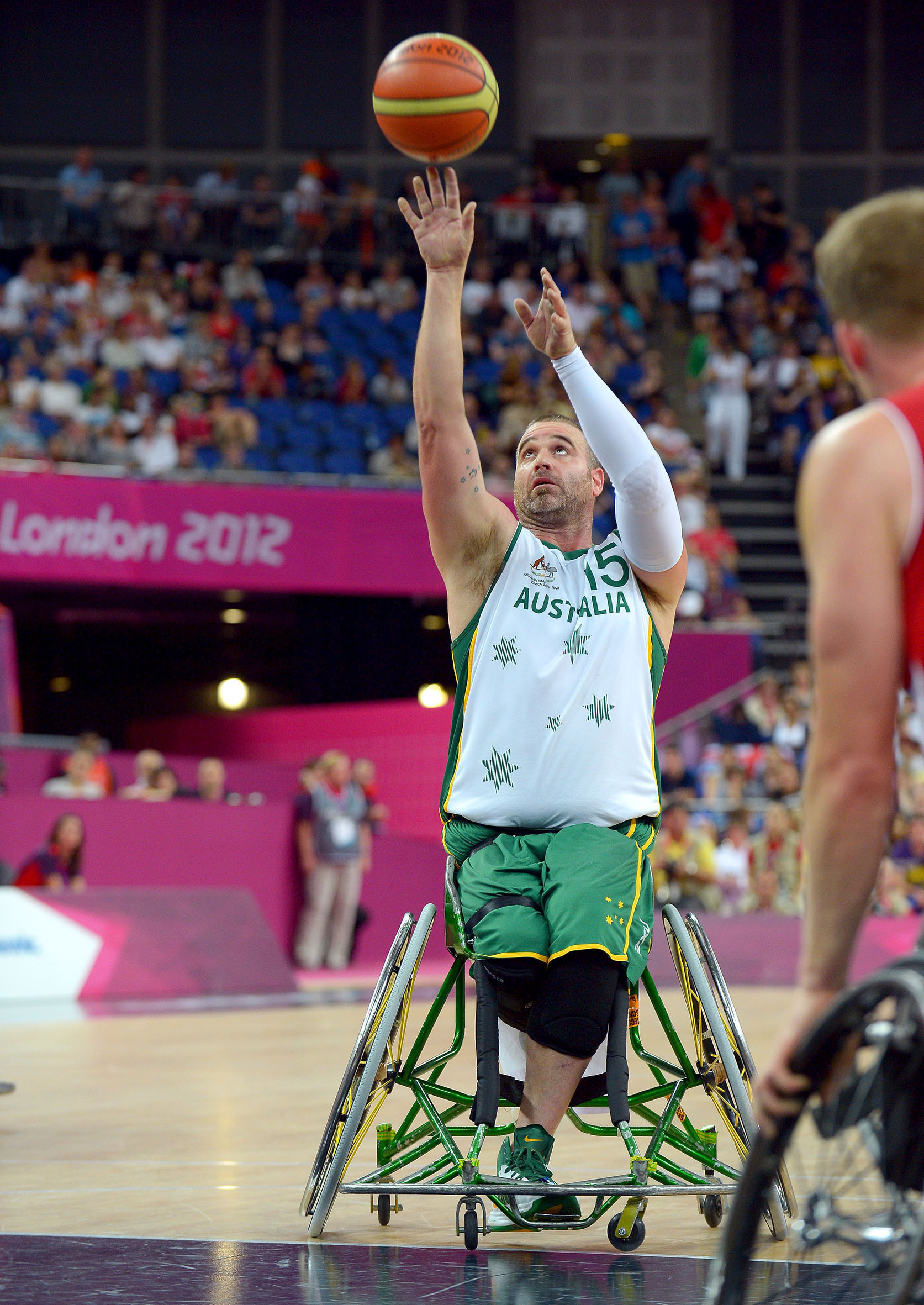 Photograph of Australian Paralympic team member Brad Ness at the 2012 Summer Paralympic Games in London